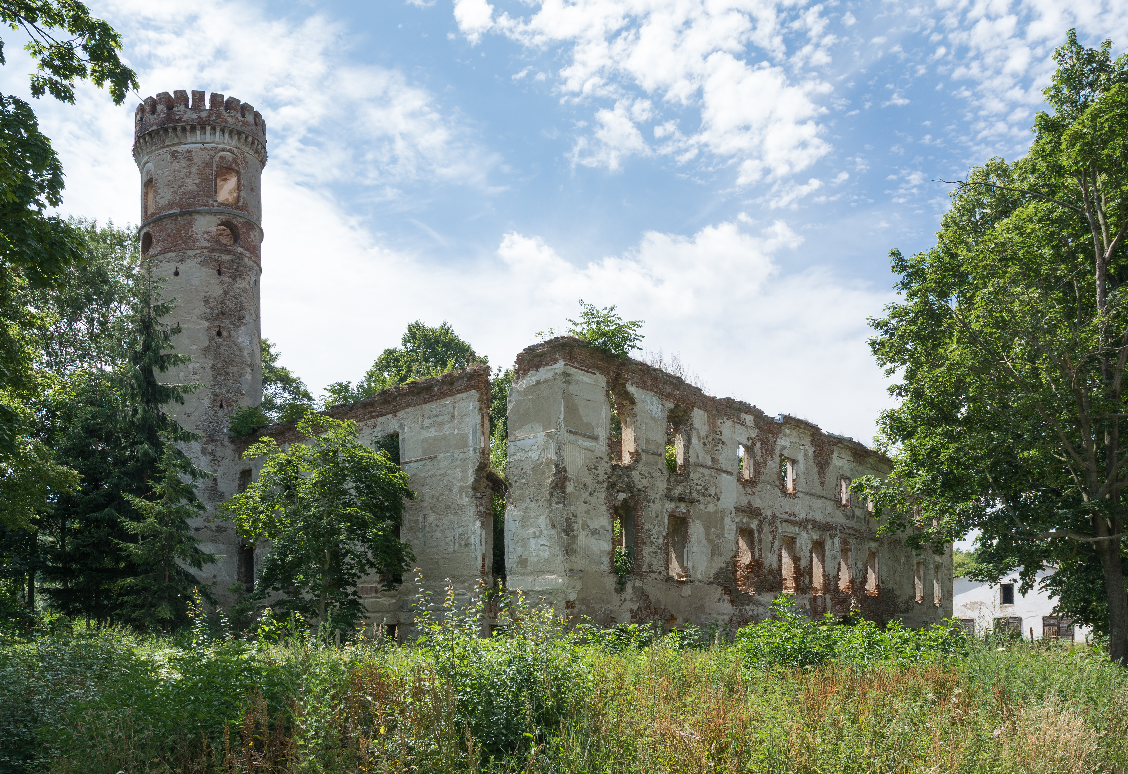 Palace in Rudnica